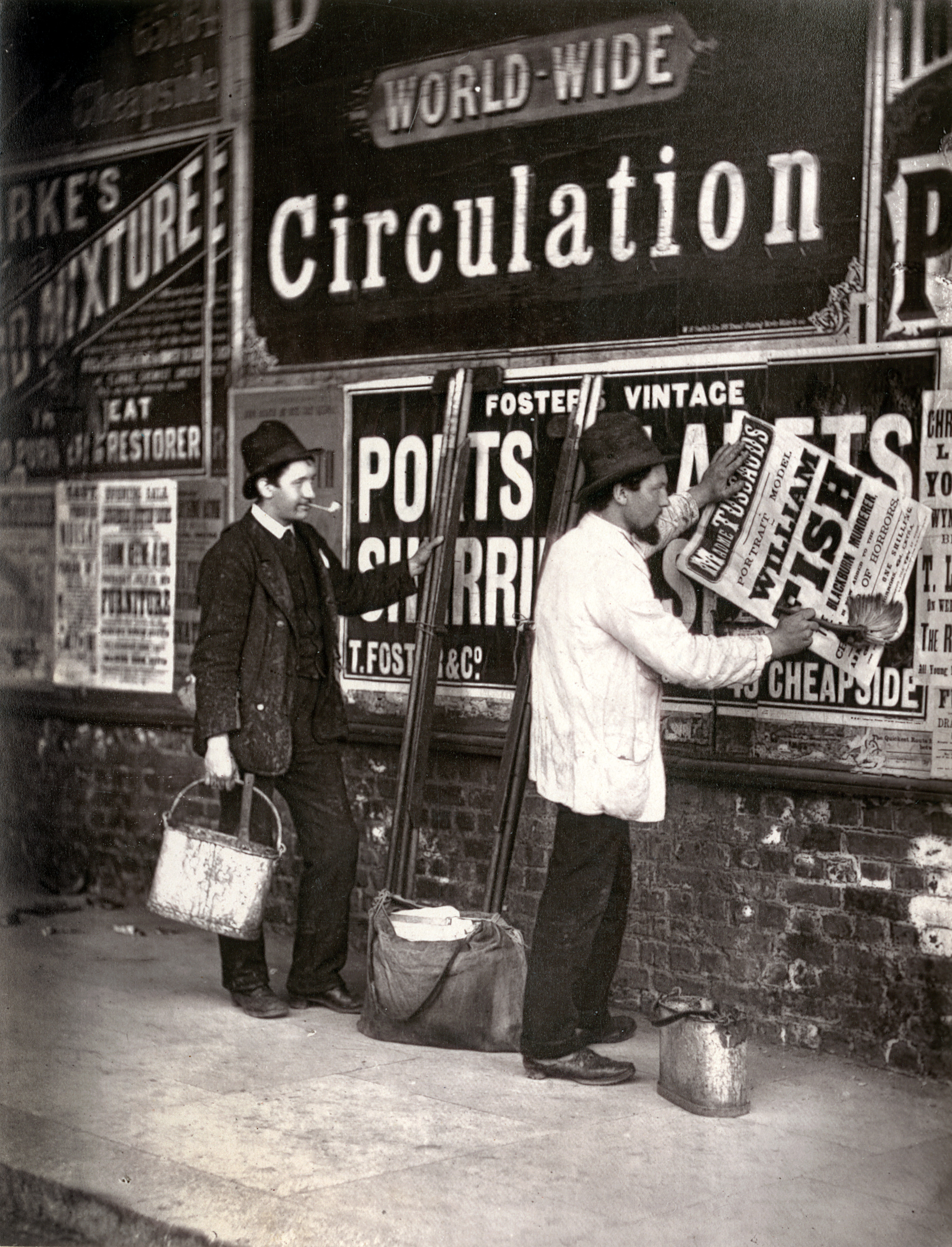 From 'Street Life in London', 1877, by John Thomson and Adolphe Smith: 'There is a certain knack required in pasting a bill on a rough board, so that it shall spread out smoothly, and be easily read by every pedestrian; but the difficulty is increased fourfold when it is necessary to climb a high ladder, paste-can, bills, and brush in hand. The wind will probably blow the advertisement to pieces before it can be affixed to the wall, unless the bill-sticker is cool, prompt in his action, and steady of foot. Thus the "ladder-men," as they are called, earn much higher wages, and the advertising contractors are generally glad to give them regular employment. The salaries of these men vary from £1 to £1 15s. per week, and they work as a rule from seven in the morning to seven at night.' For the full story, and other photographs and commentaries, follow this link and click through to the PDF file at the bottom of the description